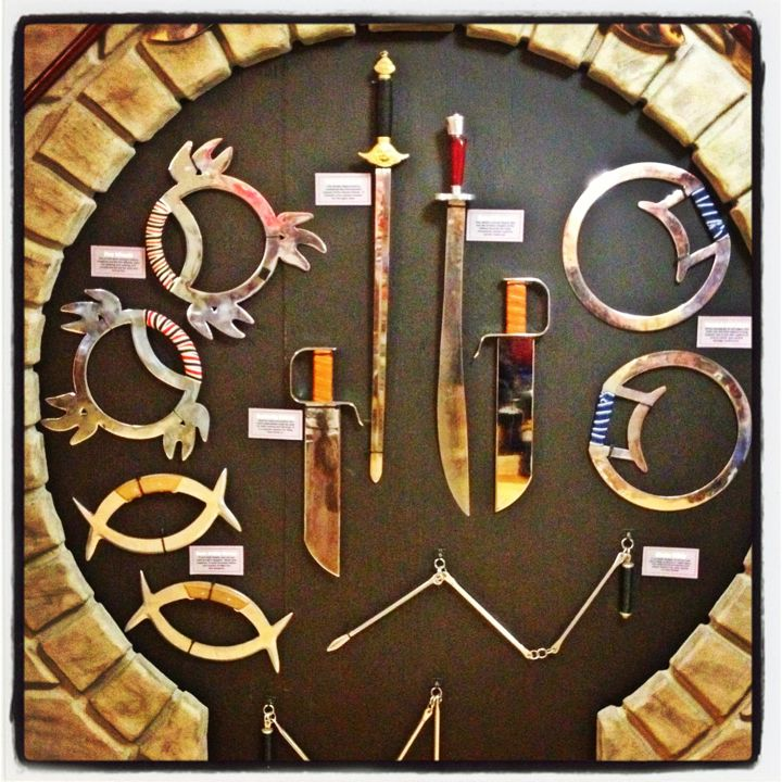 Kung Fu Weaponry at the Martial Arts History Museum (photo by Nikki Kreuzer)